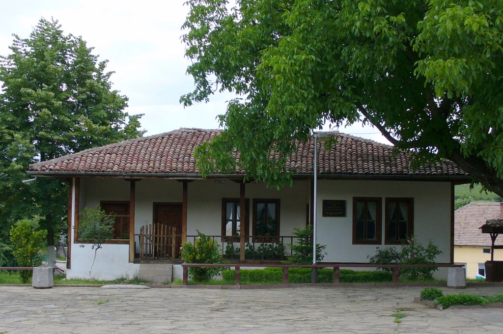 Chudomir home in Turia, now museum